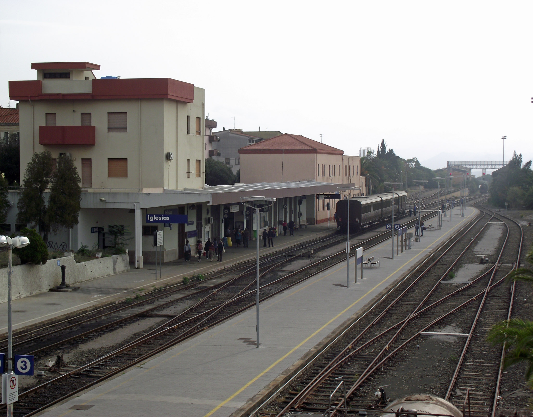 The railway station of Iglesias, Sardinia, Italy. The train parked is a turistic one composed by two Centoporte cars and a luggage van, towed by a steam locomotive FS group 740, carrying out a manouveuvre in the background.